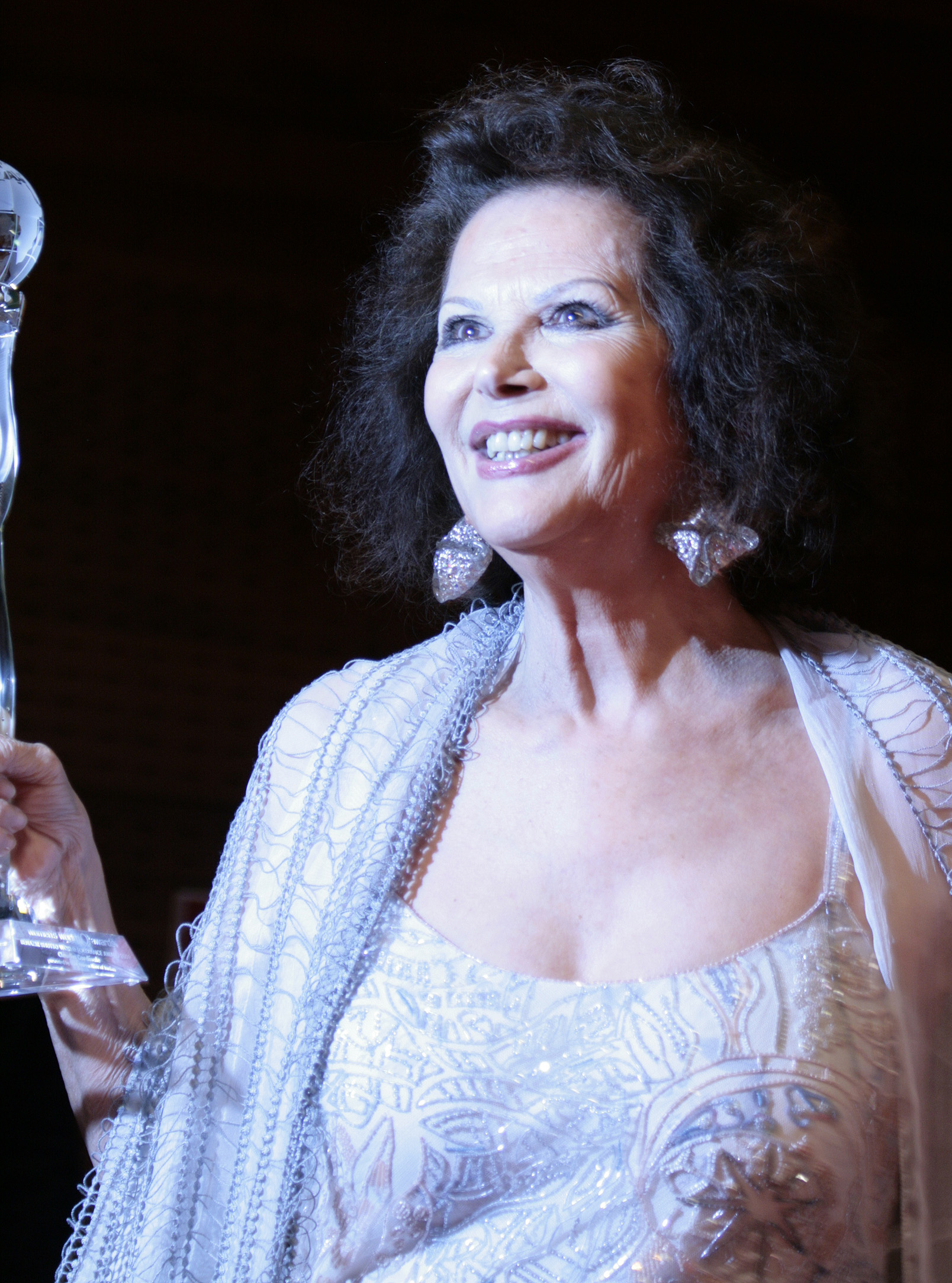 Claudia Cardinale at the Women's World Award 2009 (Wiener Stadthalle, Vienna, Austria).